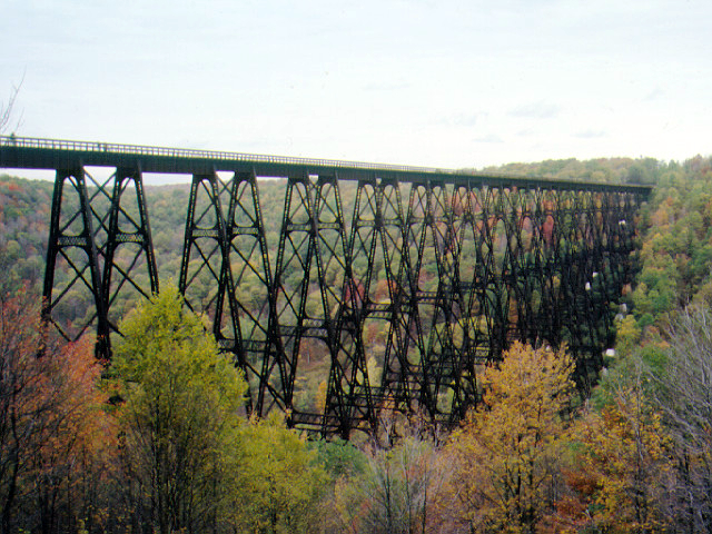 The former Kinzua Bridge at Kinzua Bridge State Park in McKean County, Pennsylvania, United States